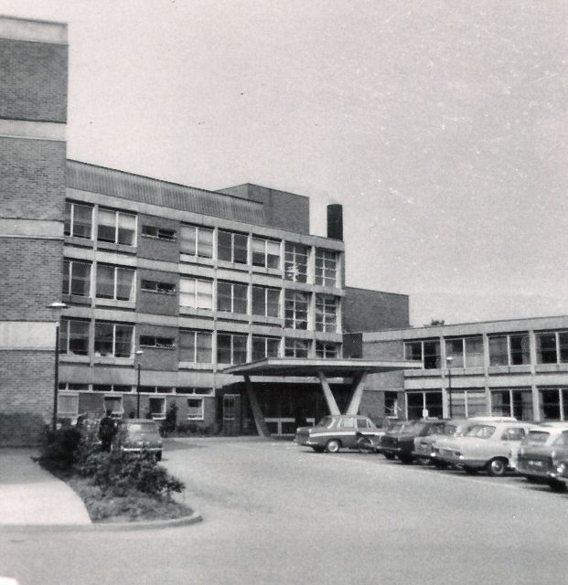 Pontefract General Infirmary The Friarwood entrance to the hospital. I understand the hospital has been virtually competely rebuilt since this time.